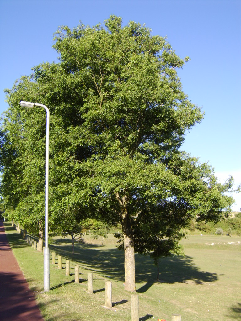 Ulmus. Longhill School, Rottingdean